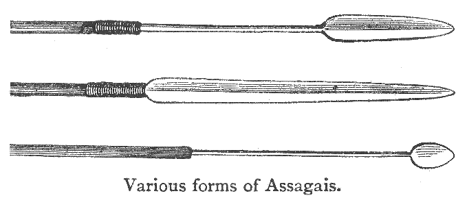 Illustration from 1908 Chambers's Twentieth Century. Assagai, n. a slender spear of hard wood, tipped with iron, some for hurling, some for thrusting with—used by the South African tribes, notably the war-like Zulus.